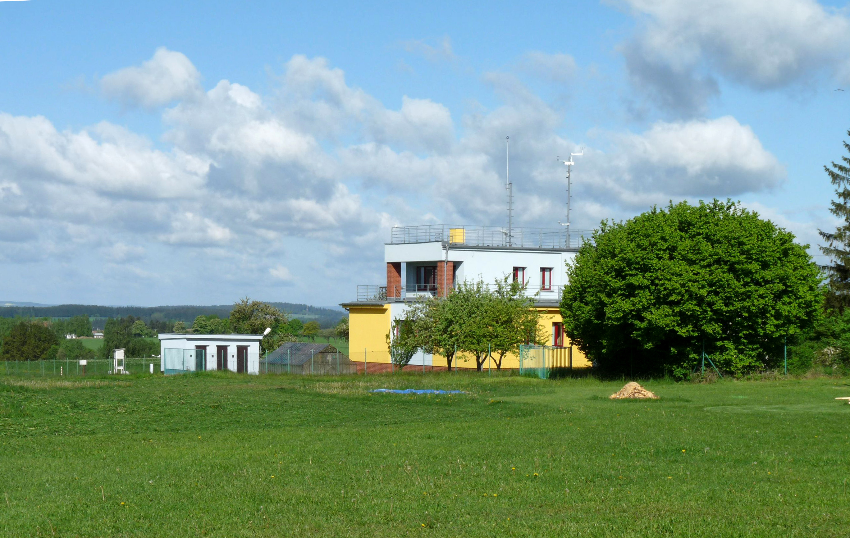 Professional meteorological station of the Czech Hydrometeorological Institute in the village of Hřiště, Havlíčkův Brod District, Vysočina Region, Czech Republic.